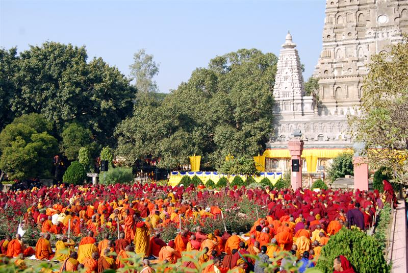 Tibetan Buddhists celebrate Monlam in Bodhgaya, India, December 2007.